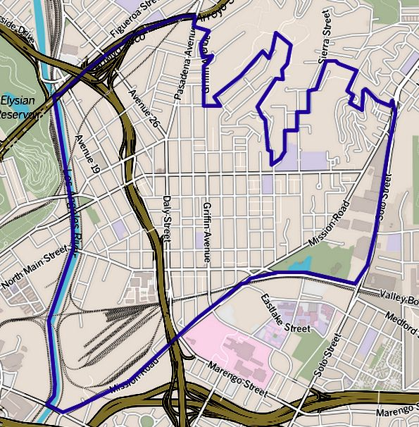 Map of Lincoln Heights, California, as delineated by the Los Angeles Times Other information Boundary map as drawn by the Los Angeles Times on a CC-by-SA background. Note at bottom right of map on the L.A. Times website noted above says "CC-by-SA" (which gives permission to use the map). There is a link there to which explains the meaning thereof. The base map is credited to The Times spells all this out at